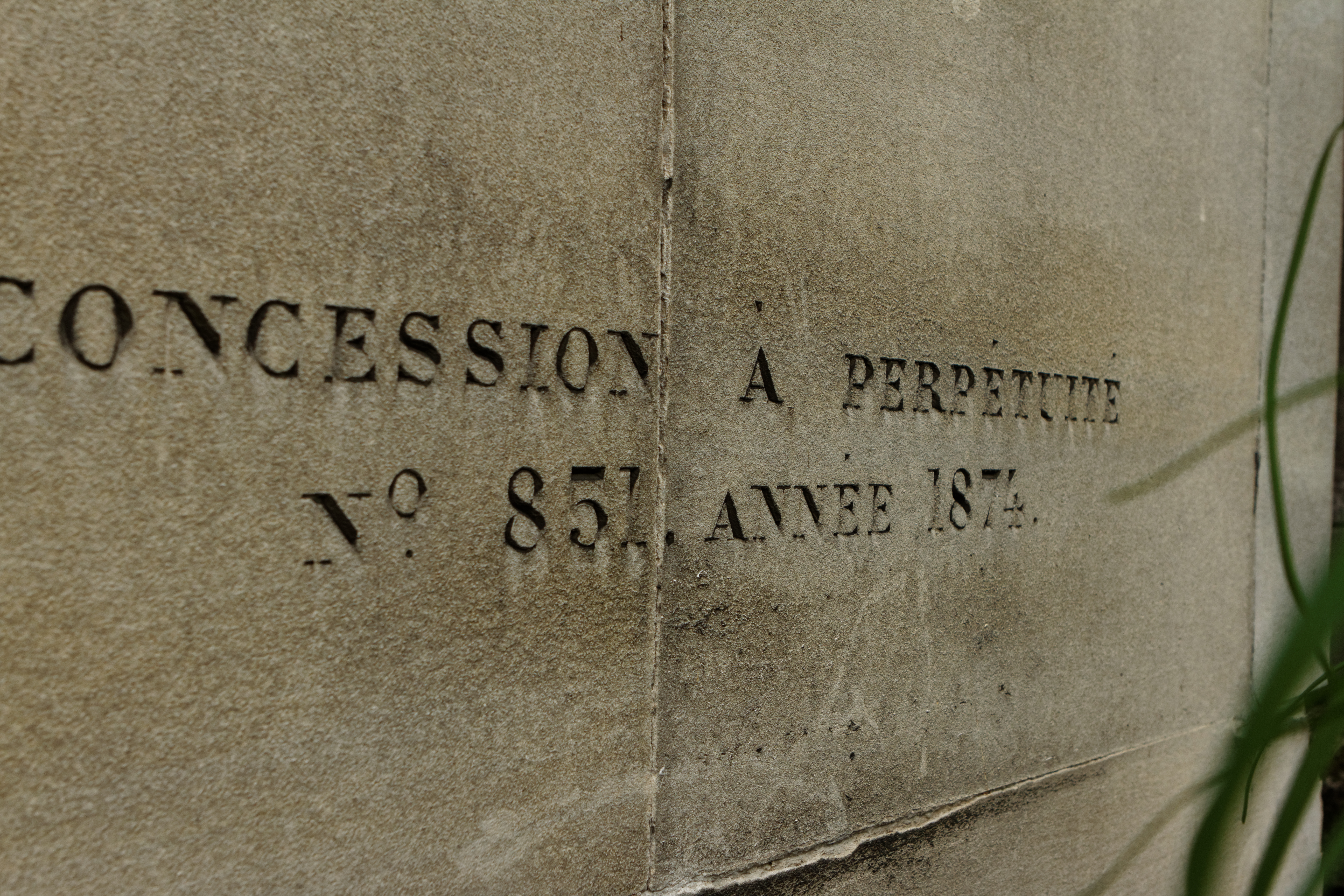 concession number